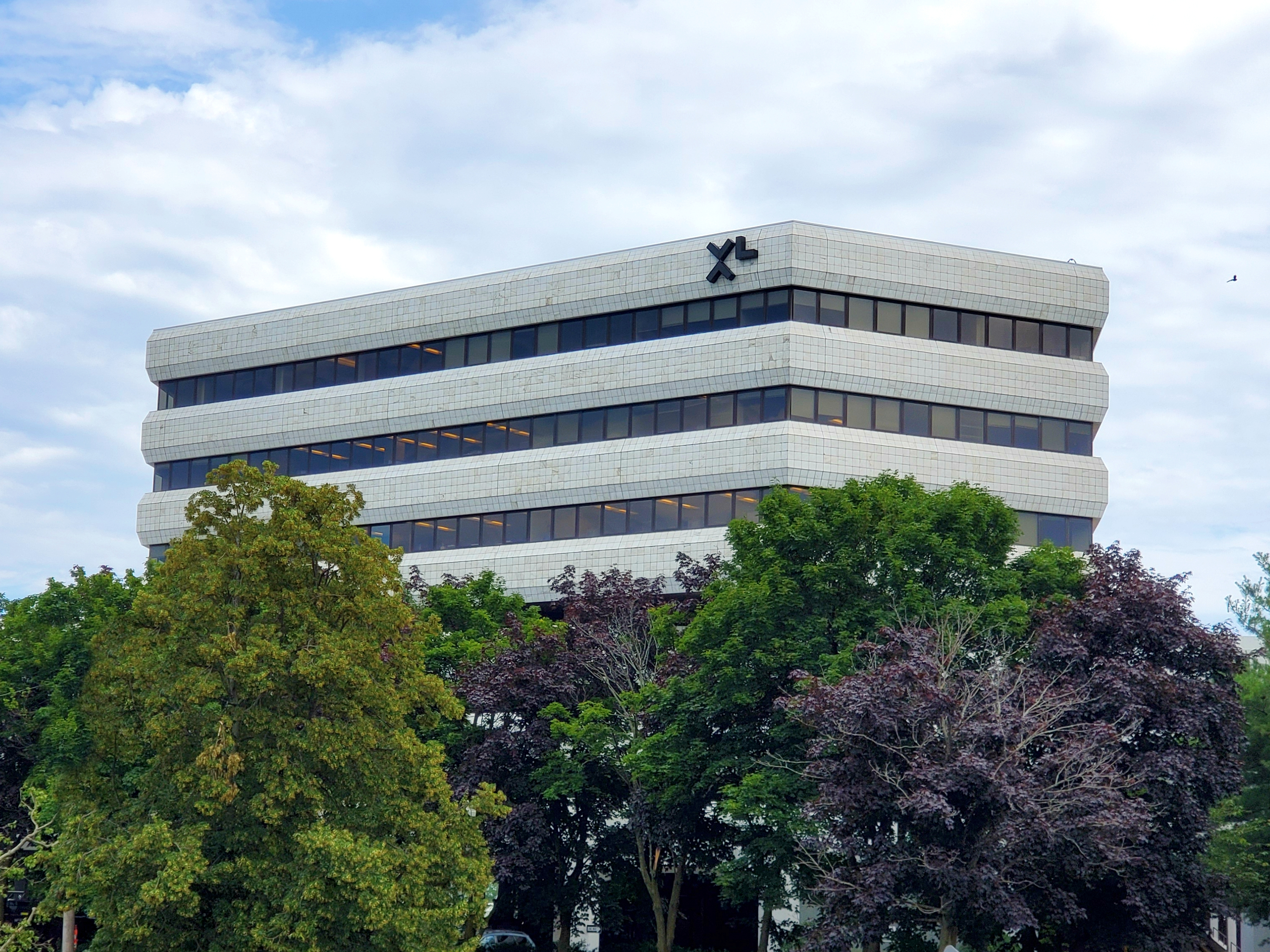 AXA XL Group's Stamford headquarters office at 70 Seaview Avenue. It also serves as the headquarters for XL America. The building is known as Seaview House.